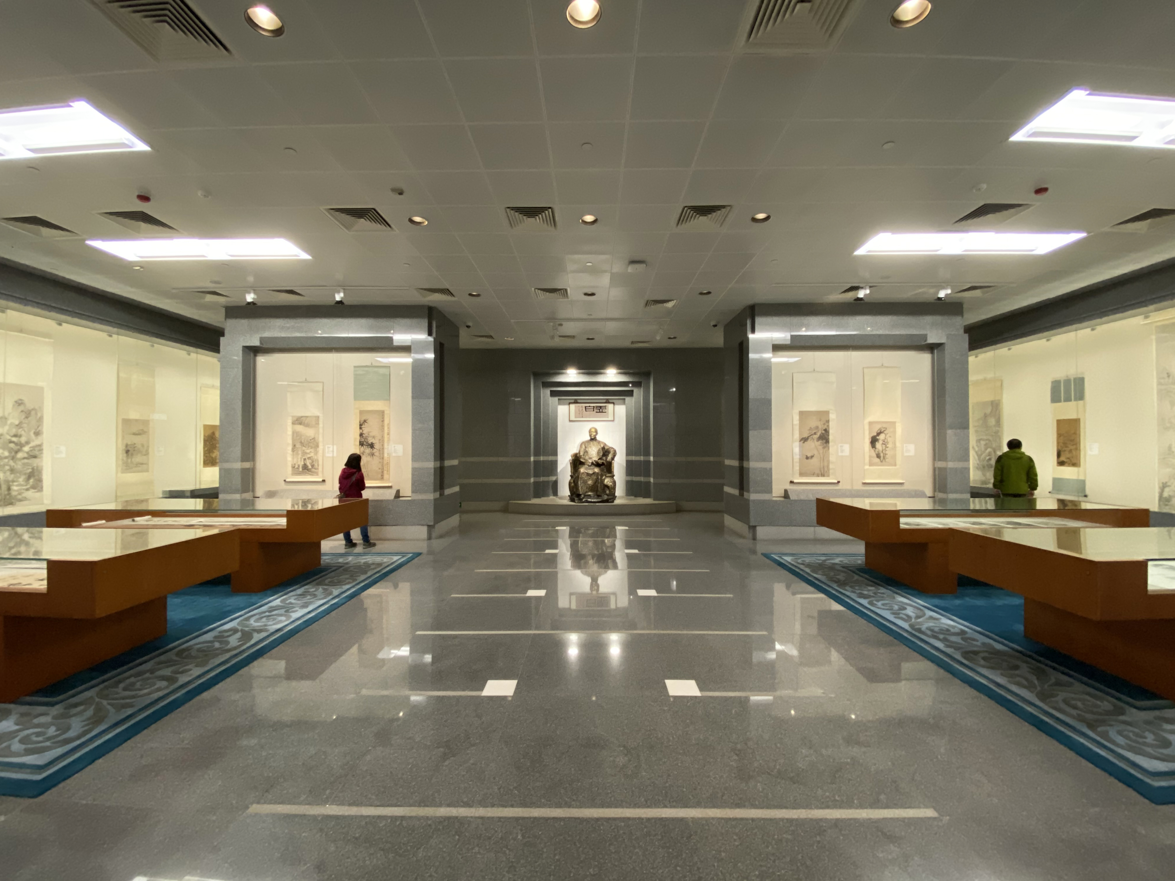 Hong Kong Museum of Art Xubaizhai Gallery of Chinese Painting and Calligraphy